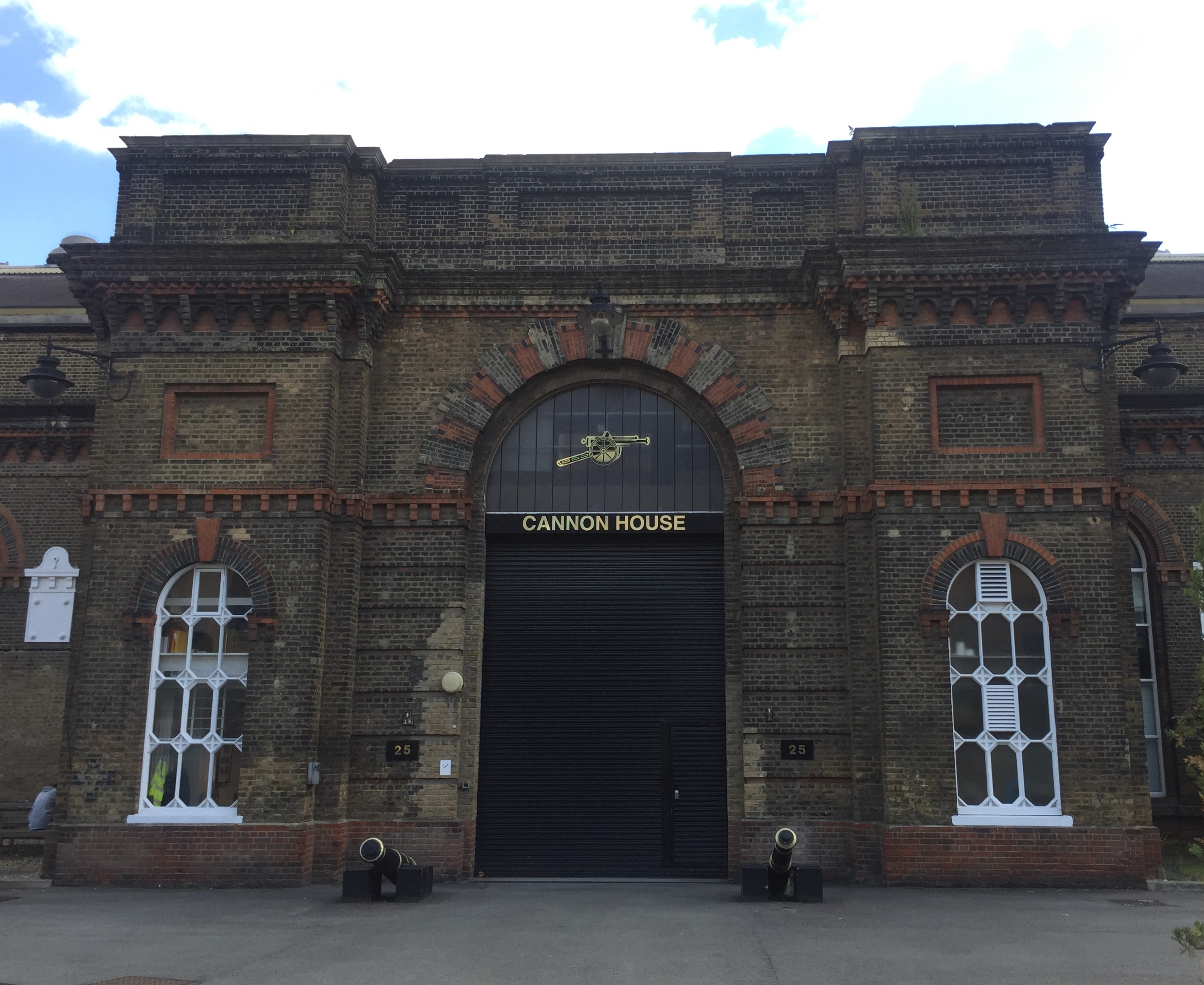 Royal Arsenal Armstrong Gun Factory Wikidata has entry Q27080556 with data related to this item.